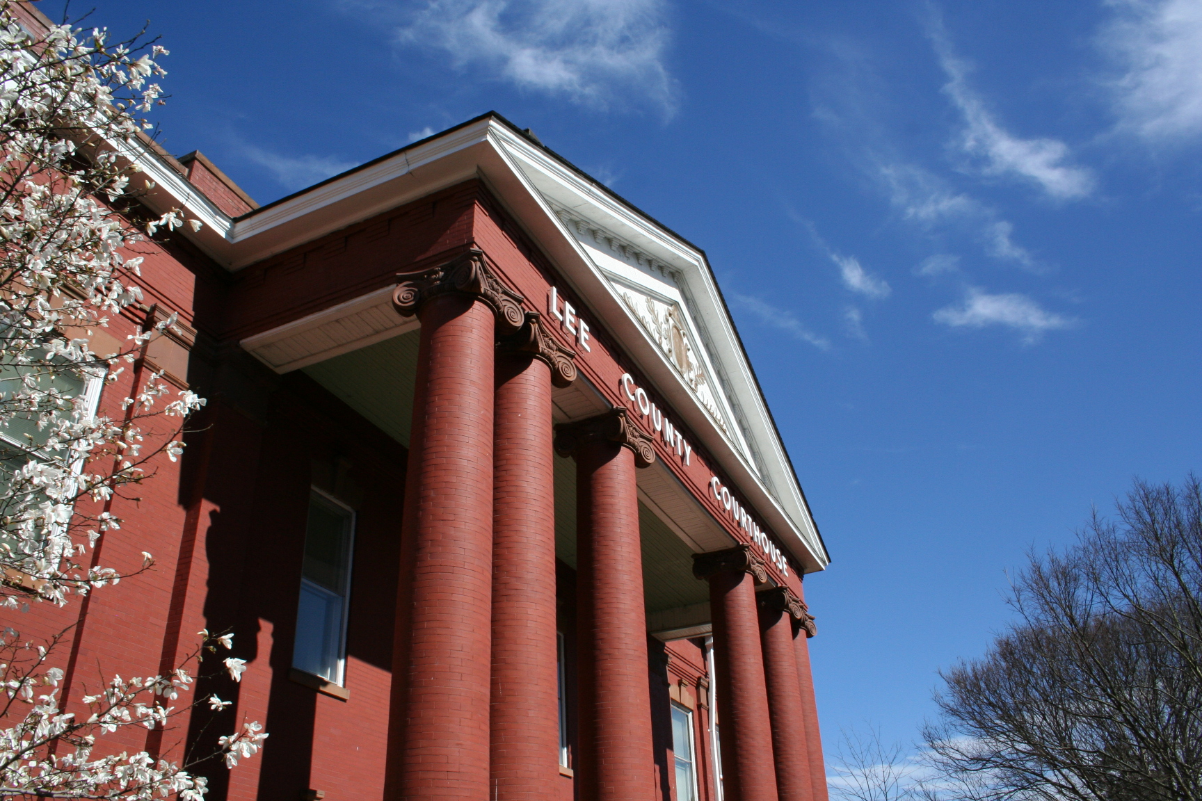 Spring time shot of Lee County Courthouse front